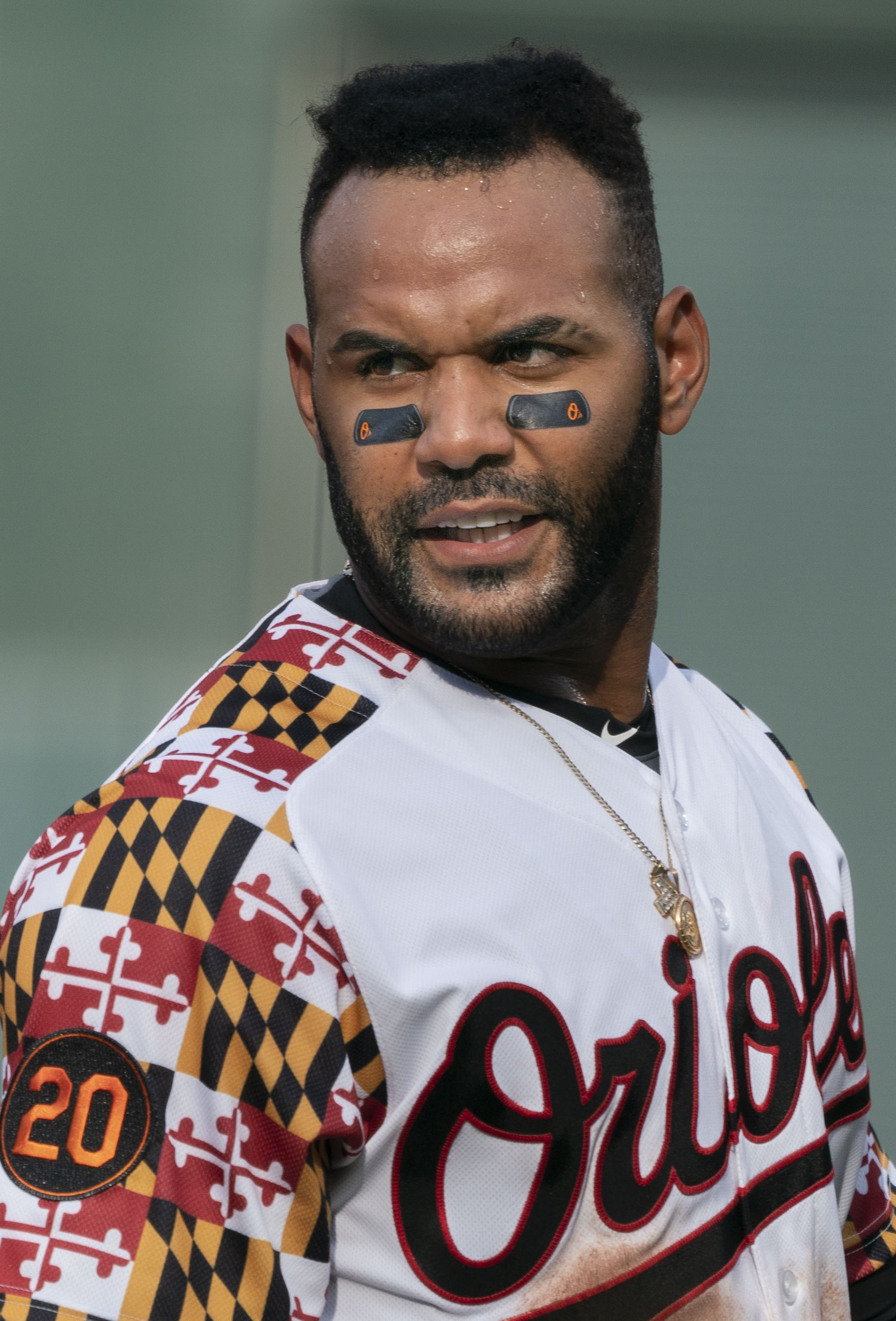 Indians at Orioles 6/29/19